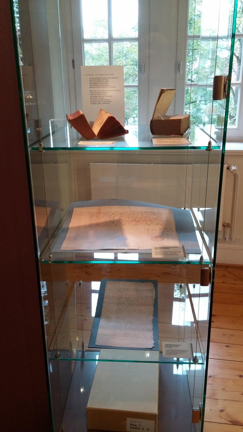 Rinteln Eulenburg Museum Witchcraft Trials Exhibition